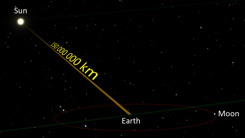 Illustration, to scale, of Earth's distance to the Sun. Created using Celestia and some further manual editing. This version has English labels.